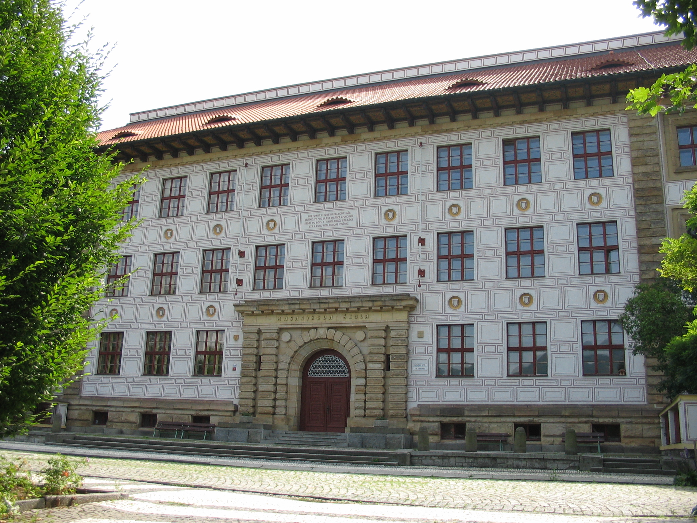 T. G. Masaryk's elementary school in Sušice, Klatovy District, Czech Republic